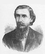 Milton Bradley (1836 – 1911)